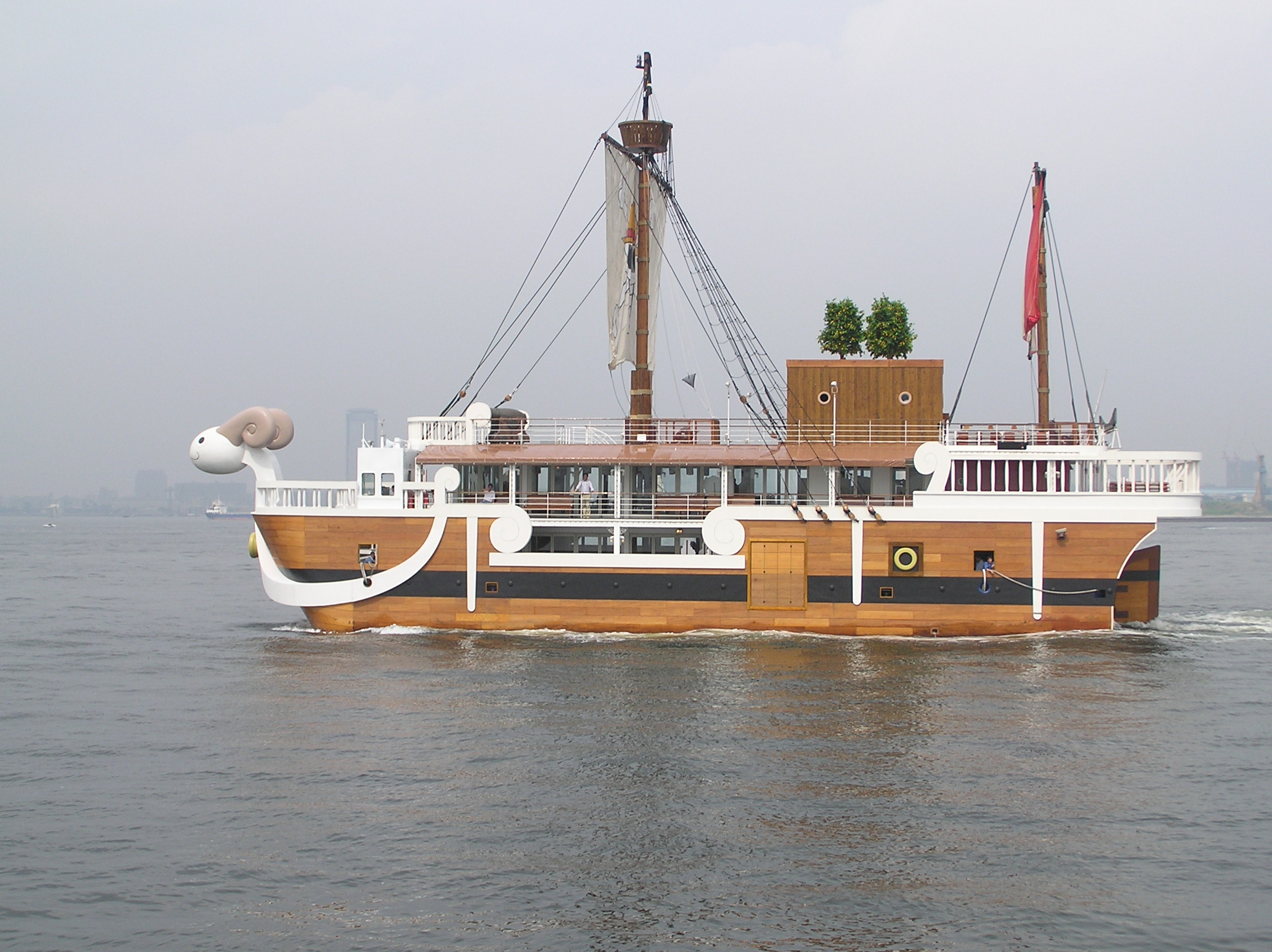 Going Merry Go (ゴーイングメリー号, The Going Merry) from One Piece